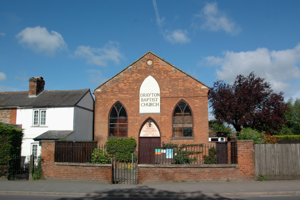 Baptist church, The Green, Drayton, Vale of White Horse, Oxfordshire (formerly Berkshire)